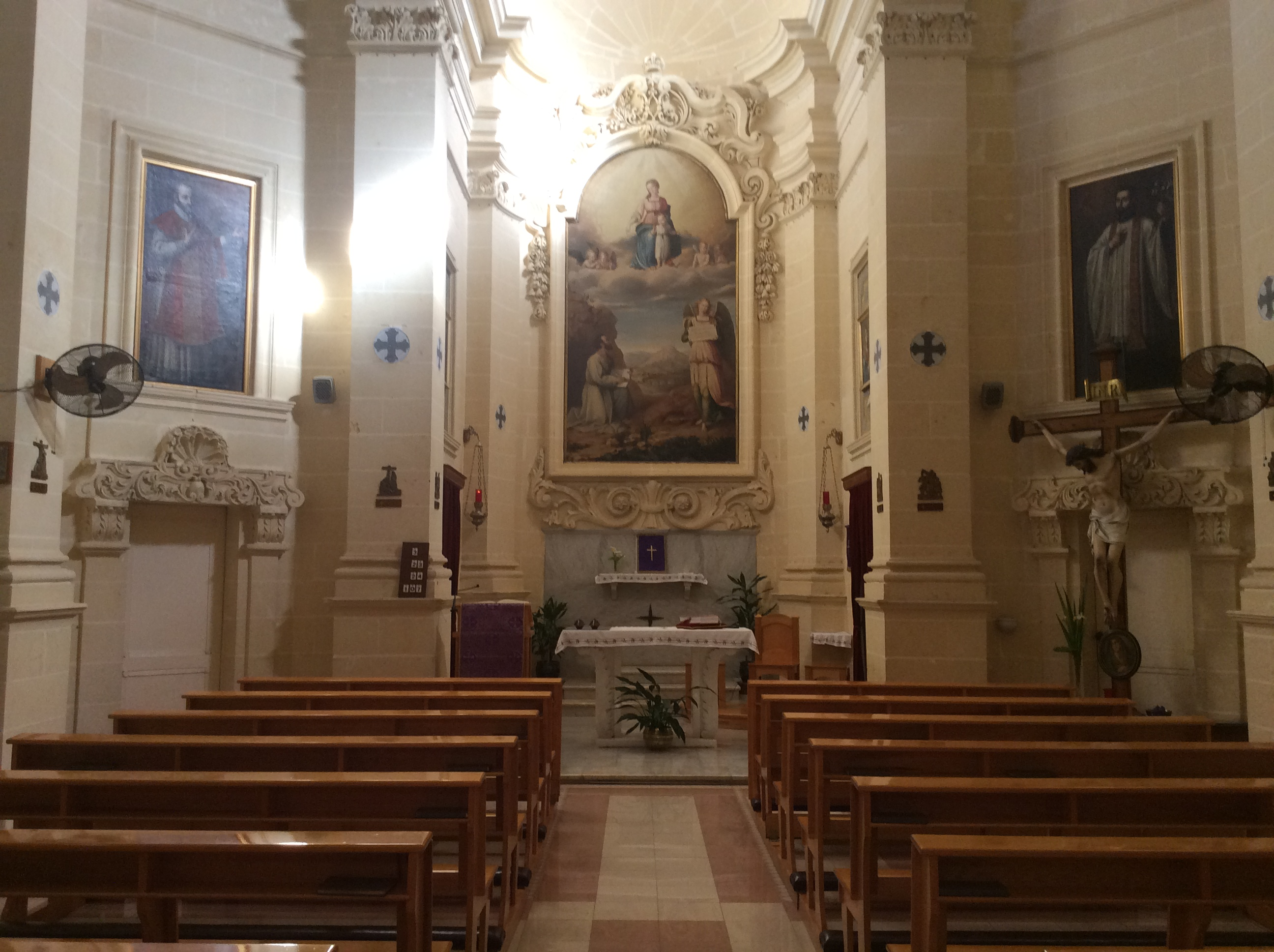 Manresa Retreat House and the Church of Our Lady of Manresa This media is about Maltese cultural property with inventory number 00928.